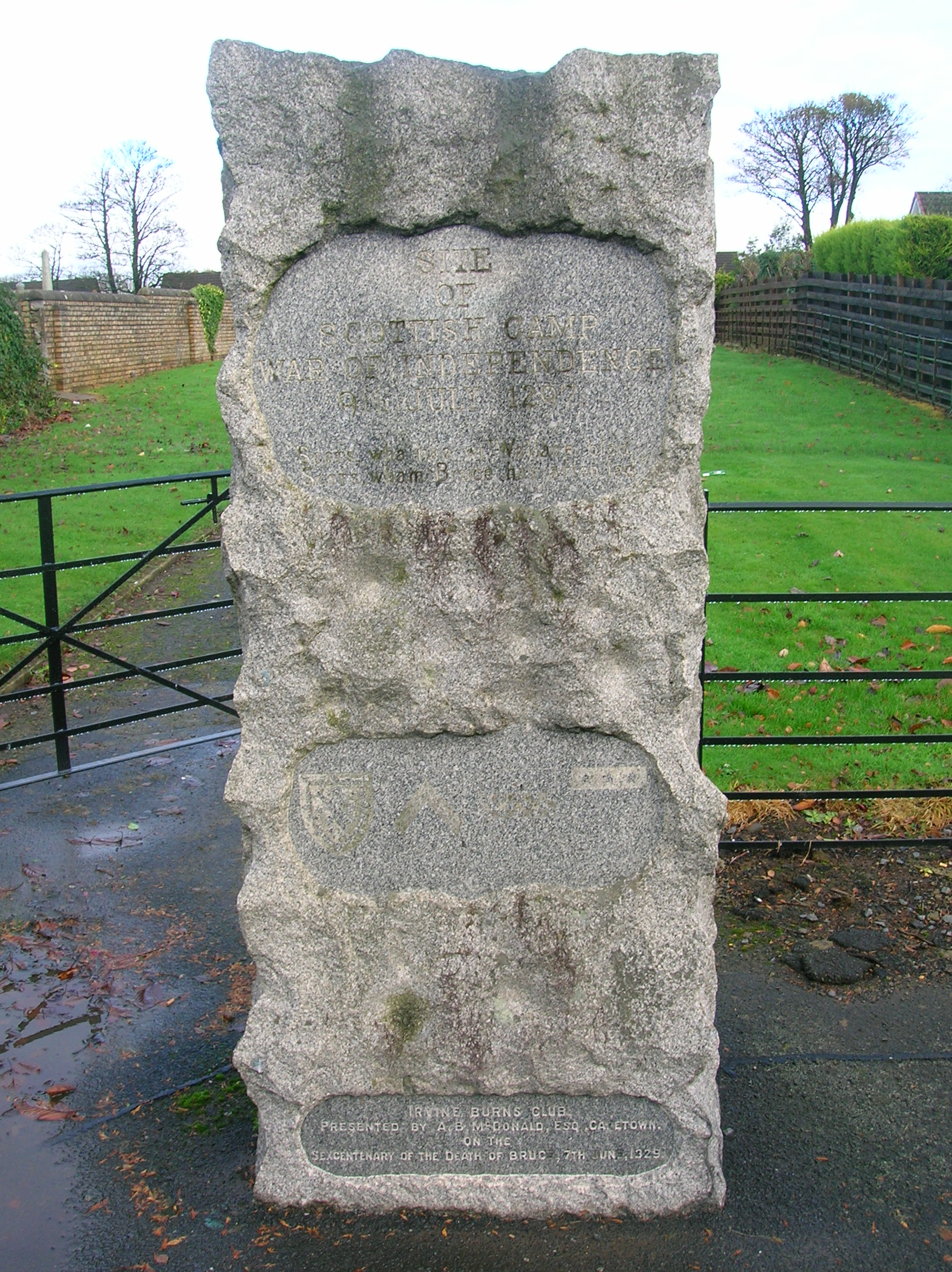 A memorial to the Scottish Army Campsite at Knadgerhill in Irvine, Ayrshire, Scotland.